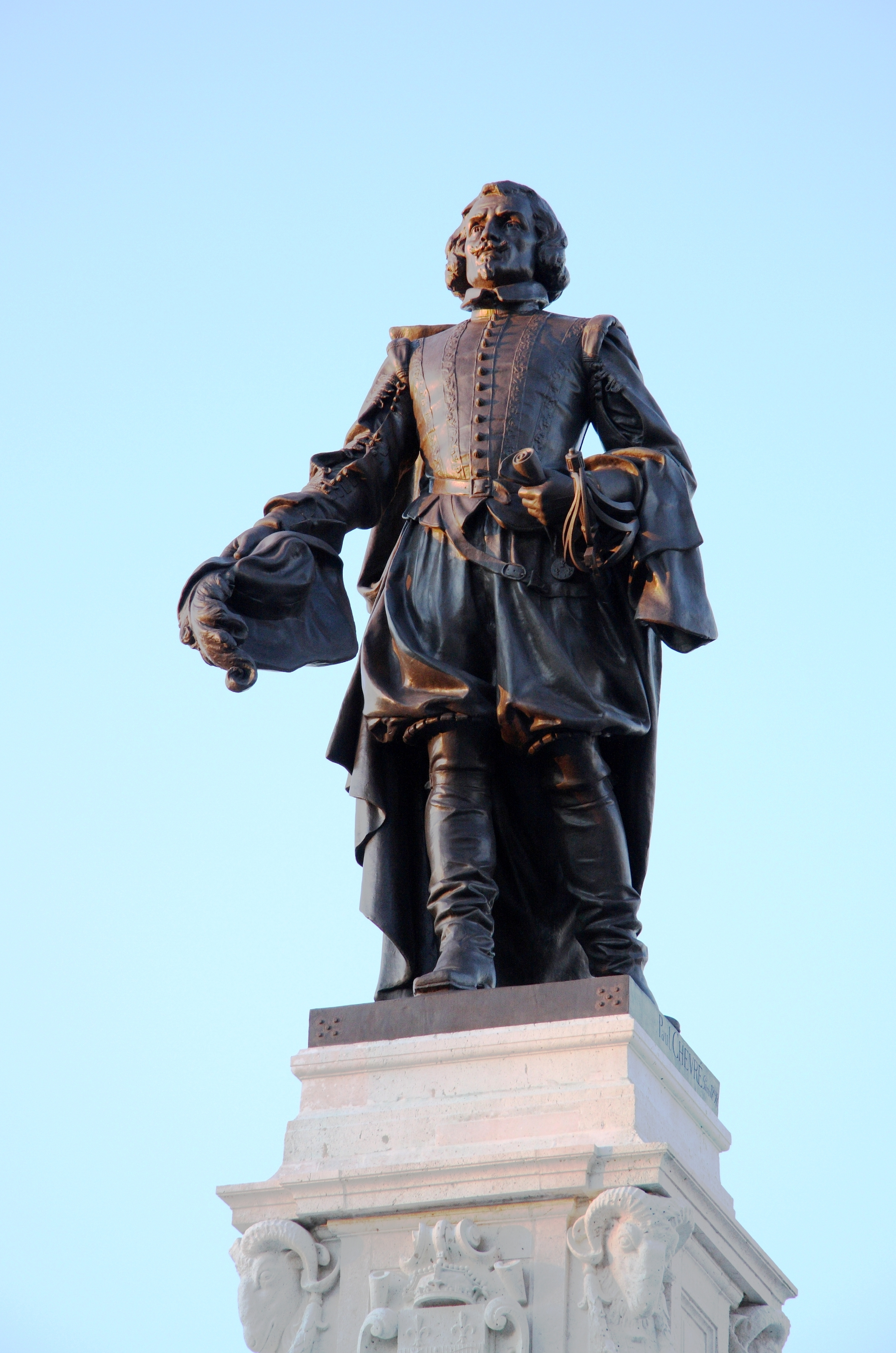 Statue of Samuel de Champlain, Terrasse Dufferin, Québec City, Canada. (Note: the clock on my camera was not propery set, the picture was taken in the morning, not the evening.)